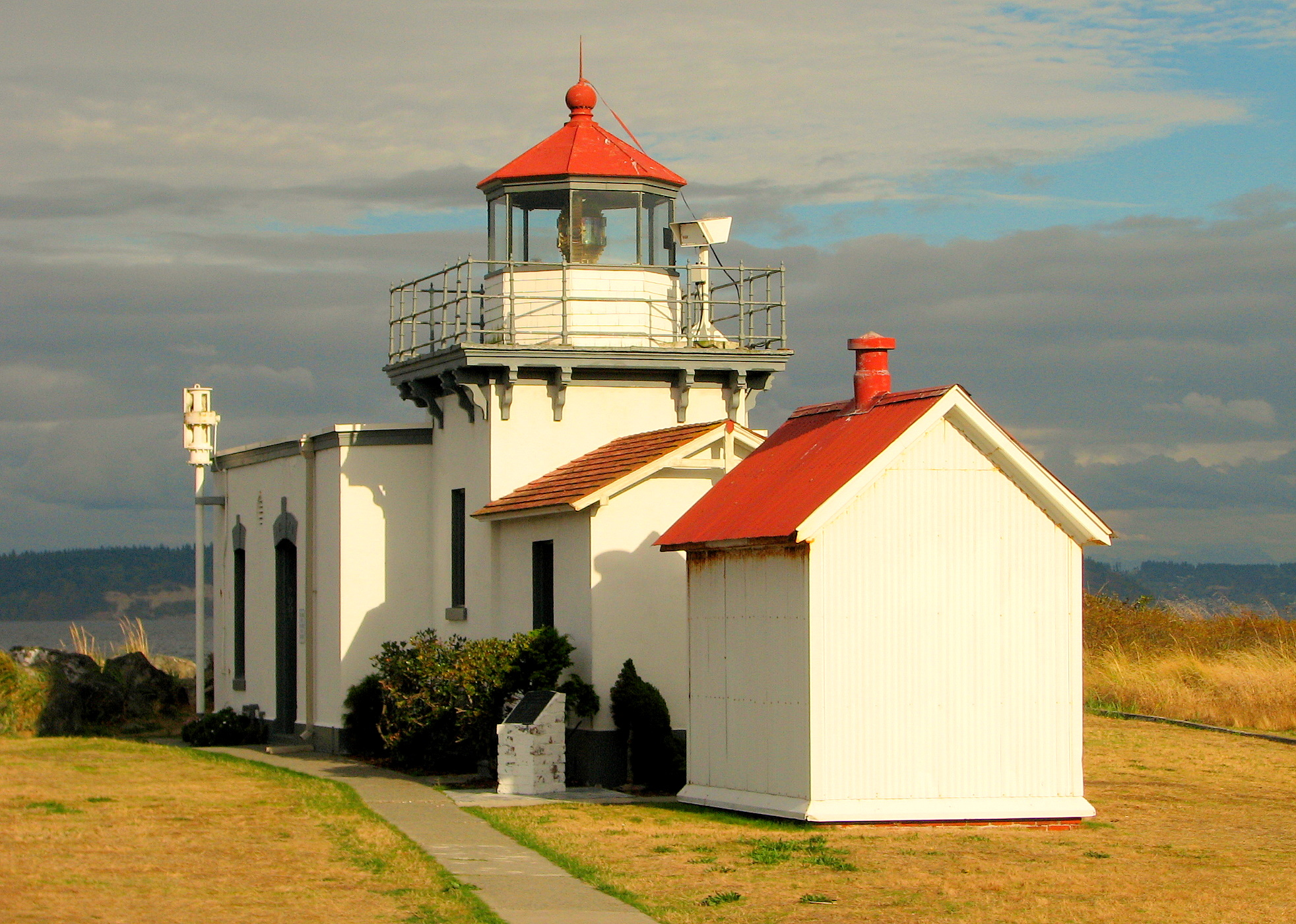 Point No Point Light at Puget Sound, Washington, USA